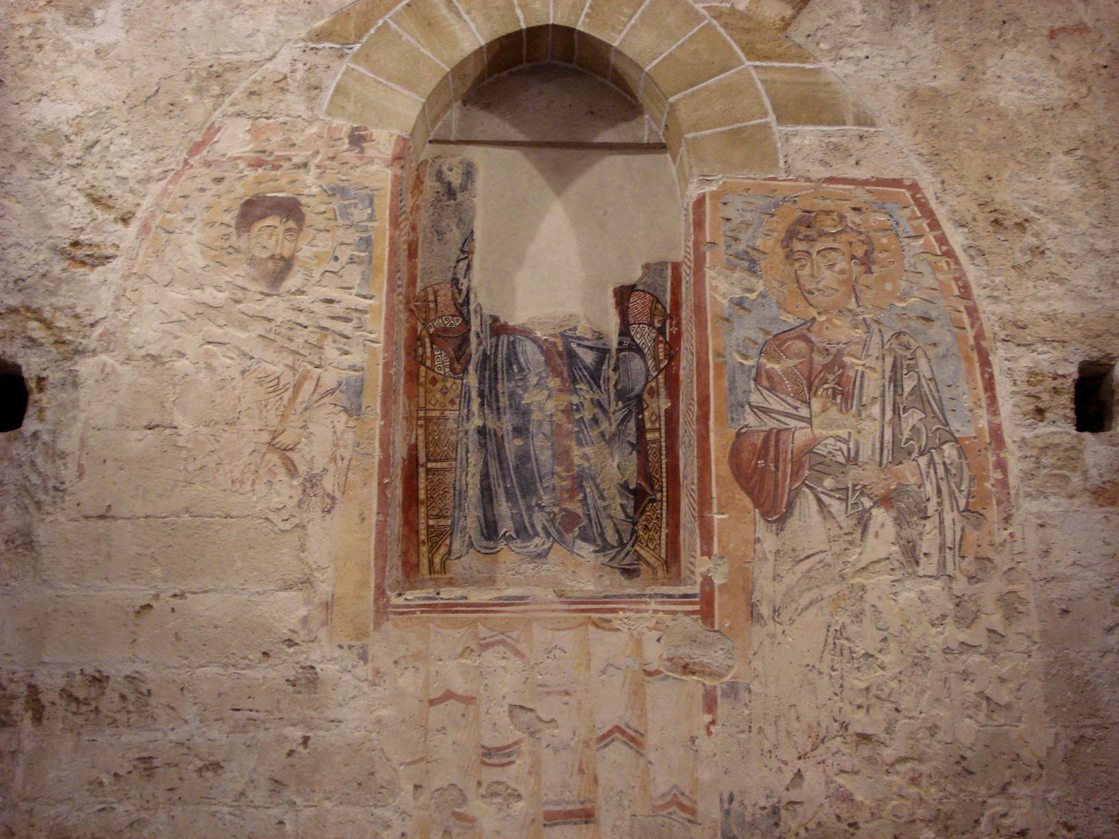 Frescos in refectory - Madonna Odighitria, St Hermes and John Theologist